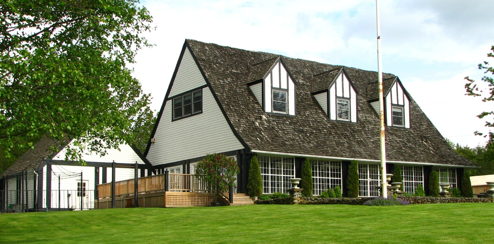 The View Point Inn, a historic road house along the Columbia River Highway in Corbett, Oregon.